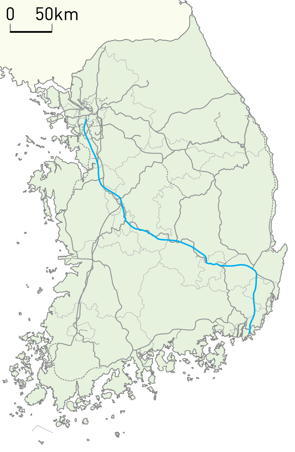 Korail Gyeongbu HSR Line route map